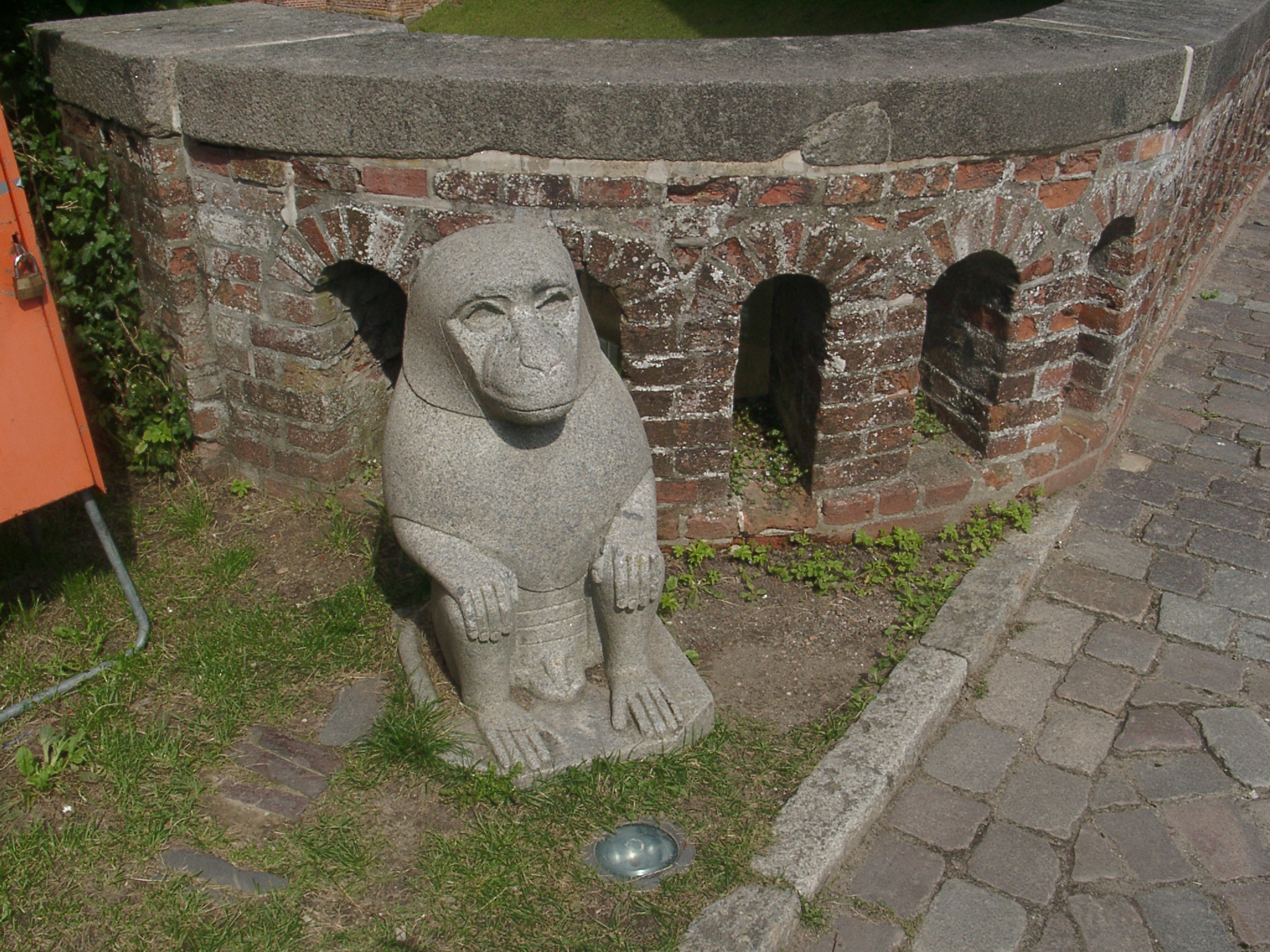 Schloss Eutin This picture has been placed in the public domain in honor of Michael Hart, founder of Project Gutenberg. 8 September 2011.